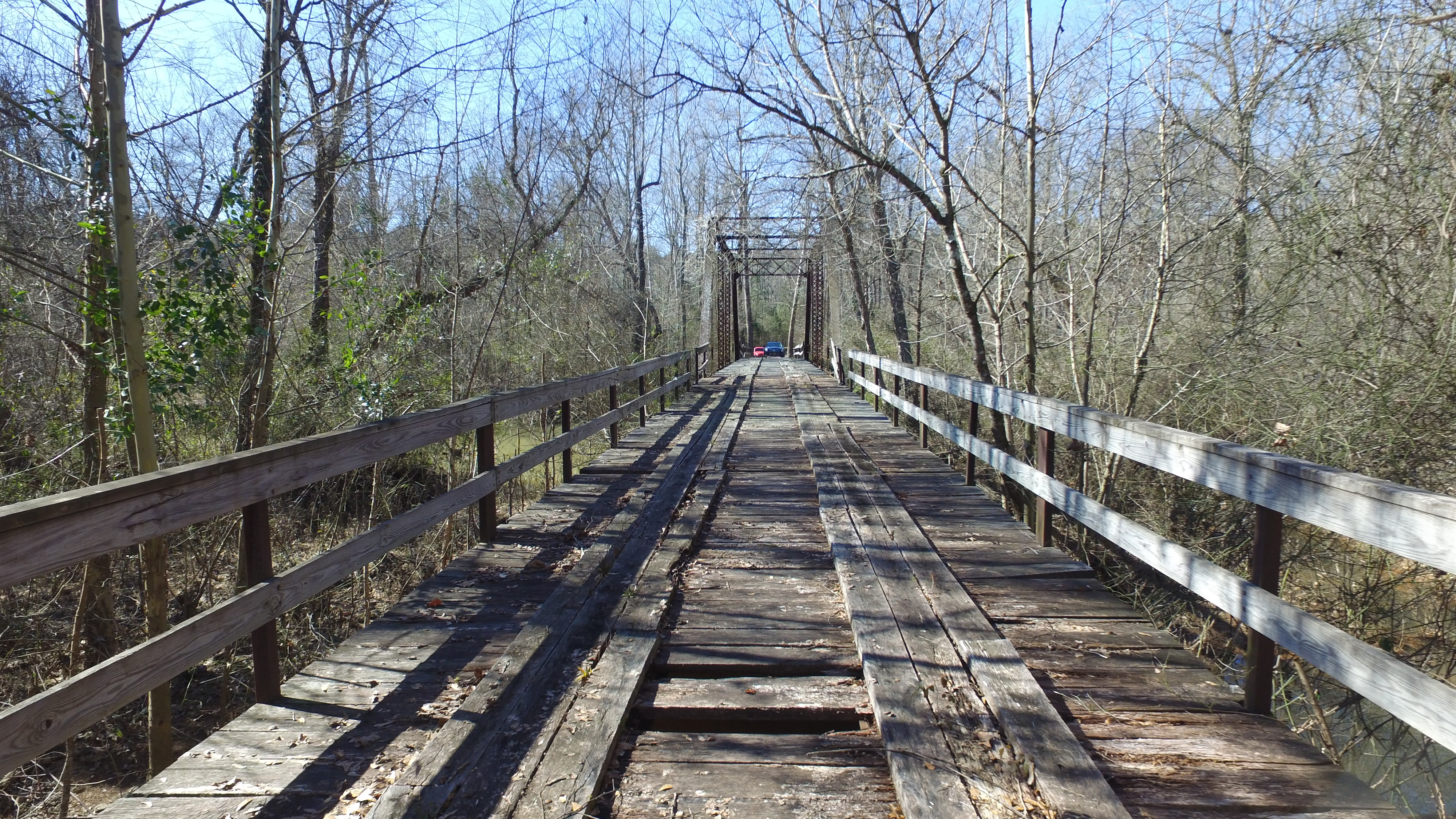 Unused portion of HWY 138. Photo taken January 30th, 2016